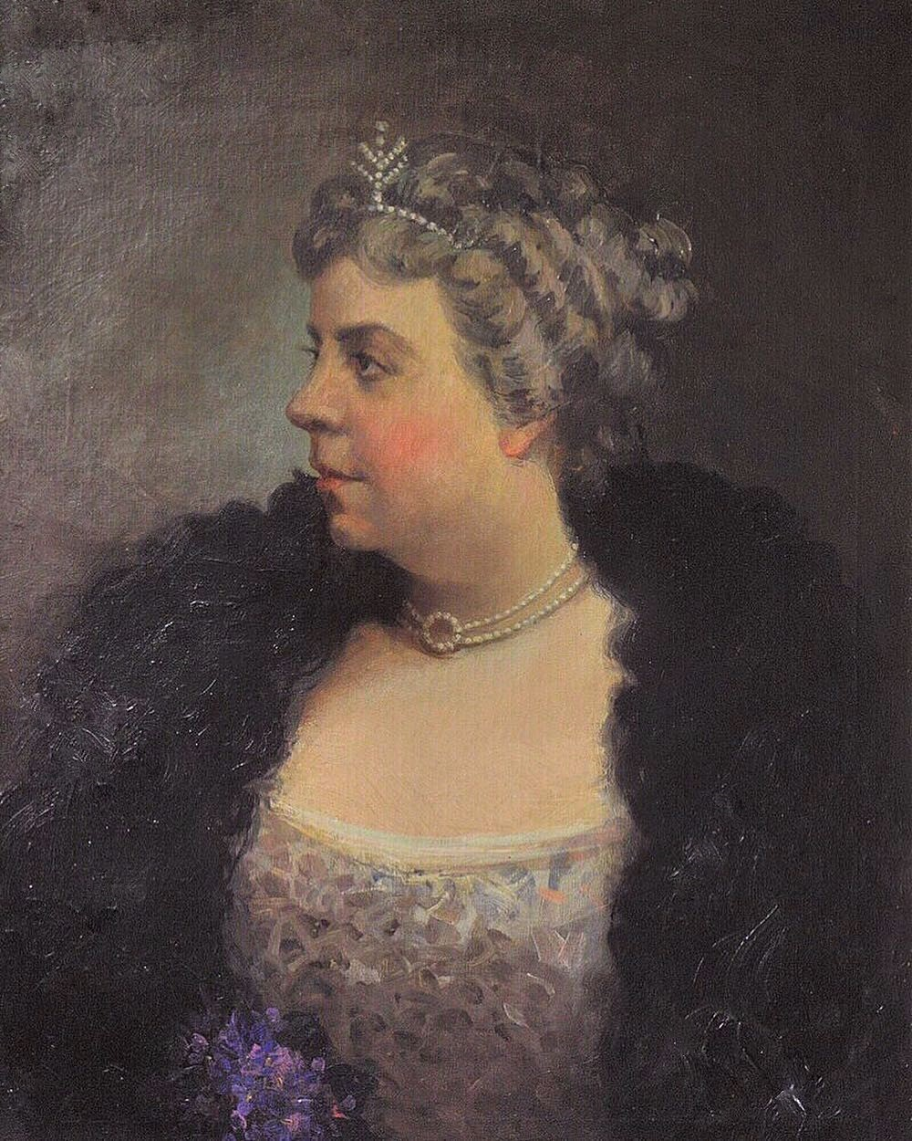 Portrait Of Sarah Polk Jetton Fall, by Mayna Avent.